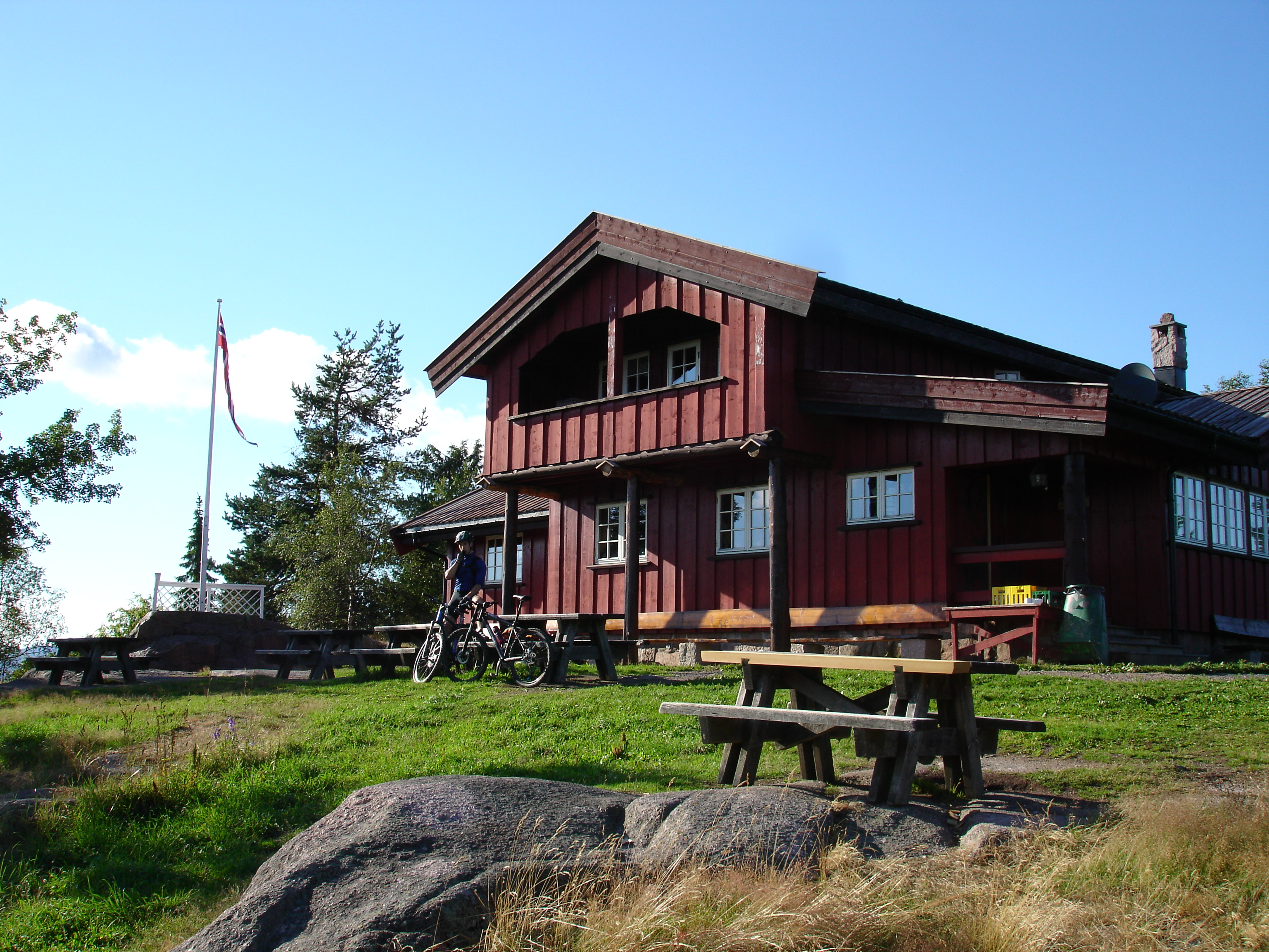 Skjennungstua, a privately owned cabin in the southern part of Nordmarka.